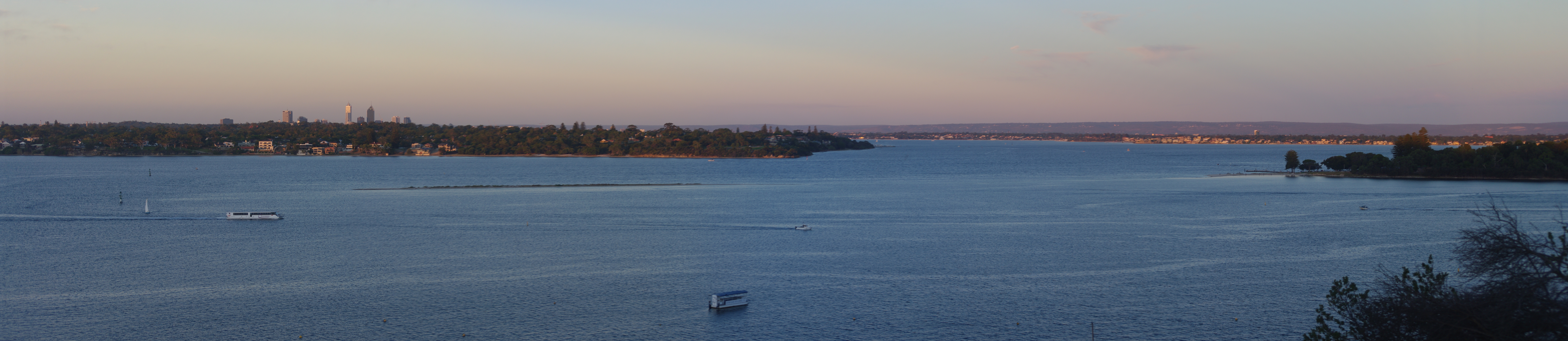 9 image panorama taken from Mosman Park of the Swan river, looking east across Point Walter and Melville Water